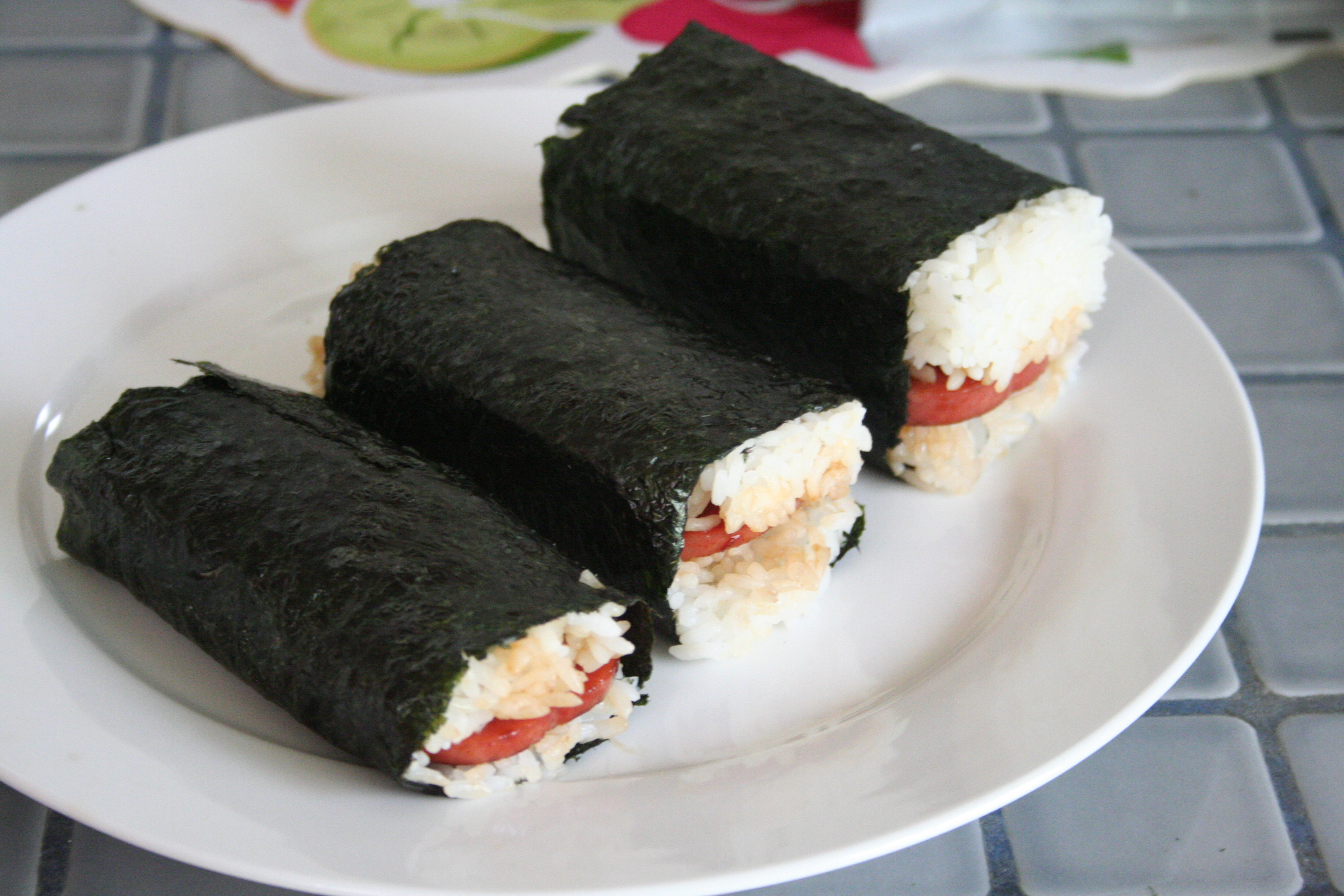 The first three attempts at making musubi.